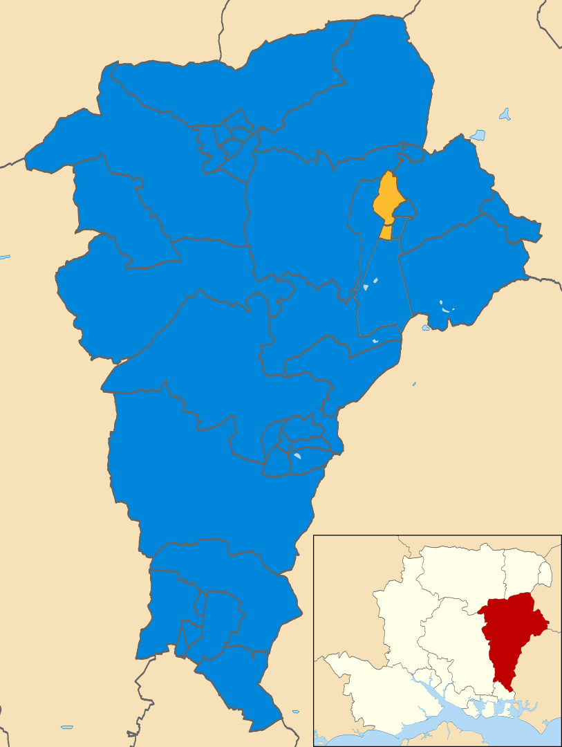 Election map for the east Hampshire council election results in 2015.